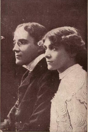 The British actors Laurence Irving and Mabel Hackney in 'The Affinity/The Incubus c1910